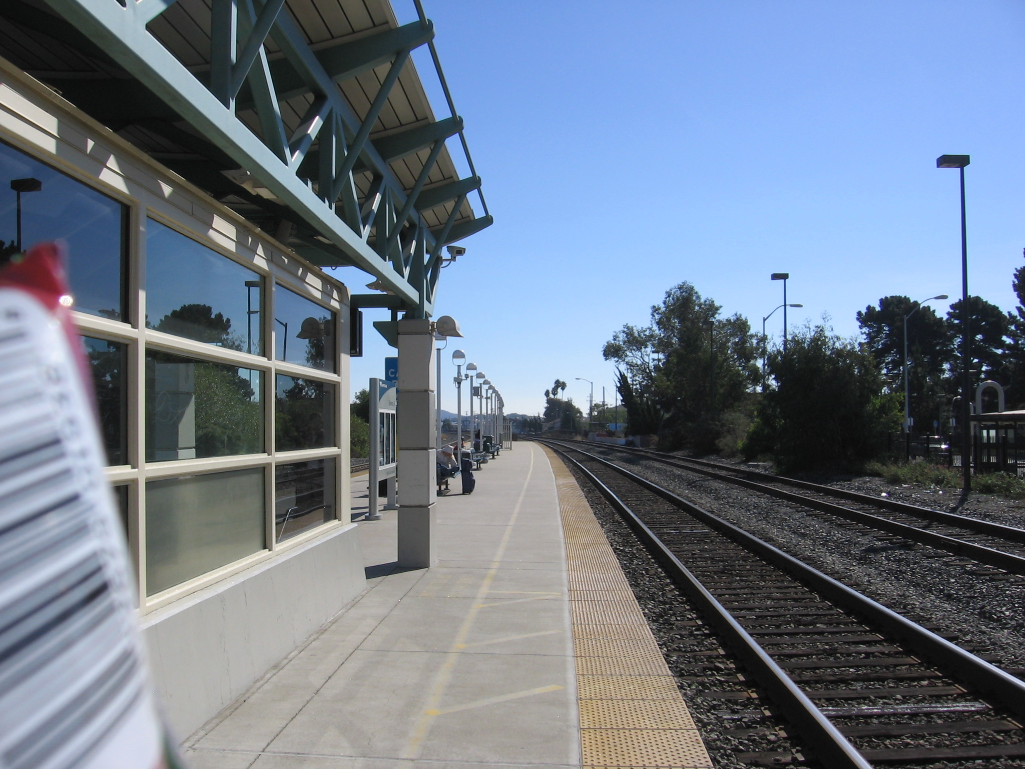 The Richmond Station (California) in Richmond, California, USA.